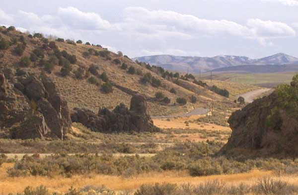 The Devil's Gate along Interstate 86, viewed from Massacre Rocks State Park.